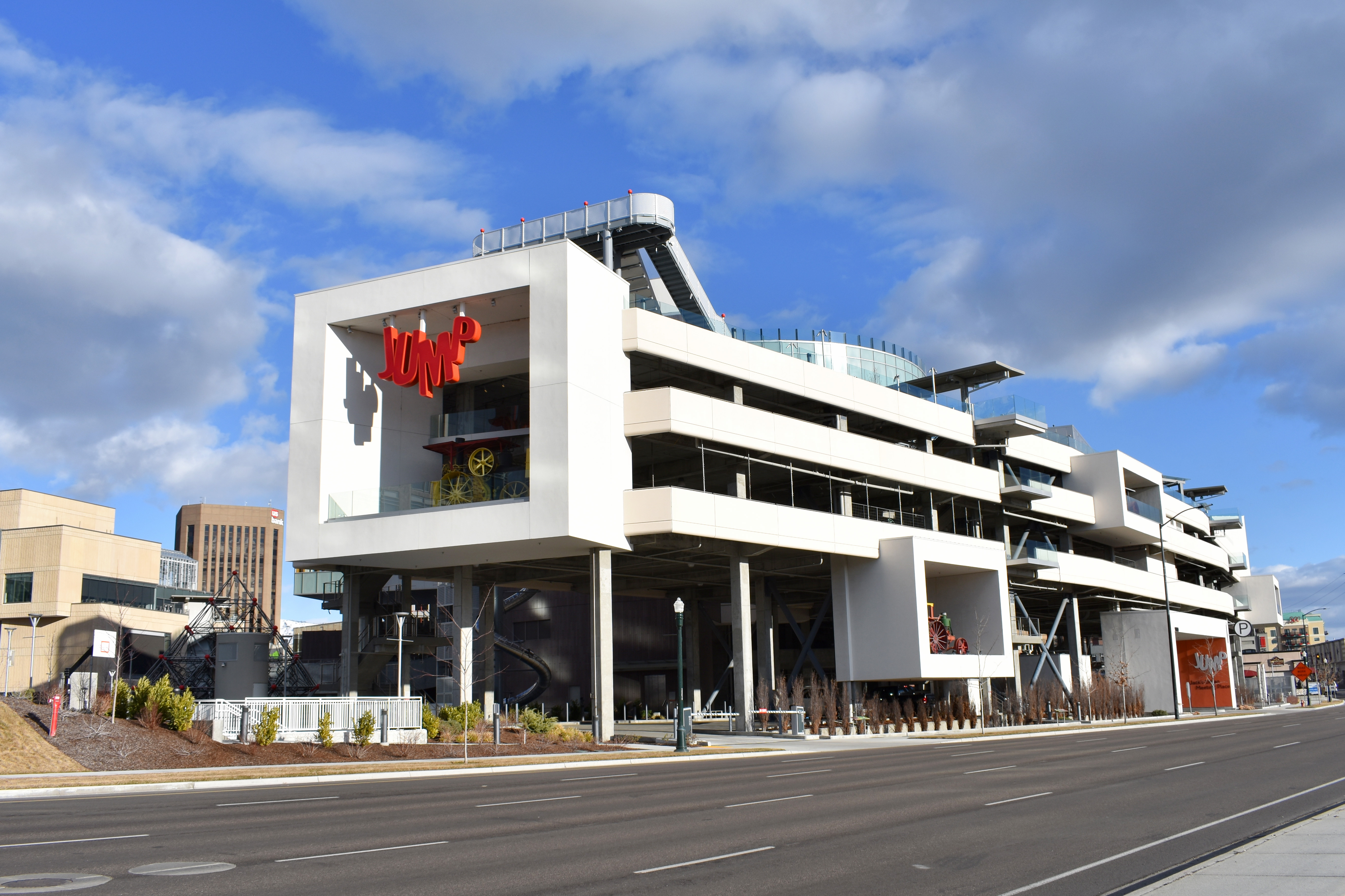 Jack's Urban Meeting Place (JUMP) in Boise, Idaho, is a mixed use community center featuring the tractor collection of J.R. Simplot.